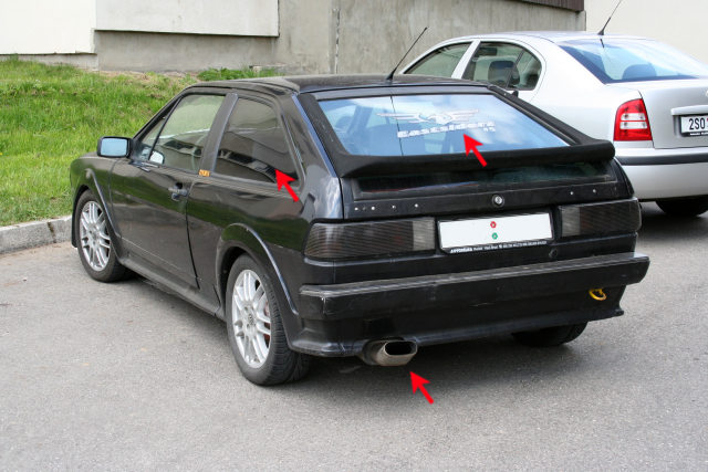 Votuning (VW Scirocco).